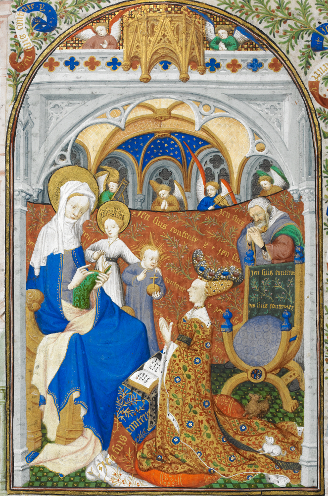 Miniature of Anne, Duchess of Bedford, praying before St Anne; from BL Add MS 18850, f. 257v (the "Bedford Hours"). Held and digitised by the British Library.